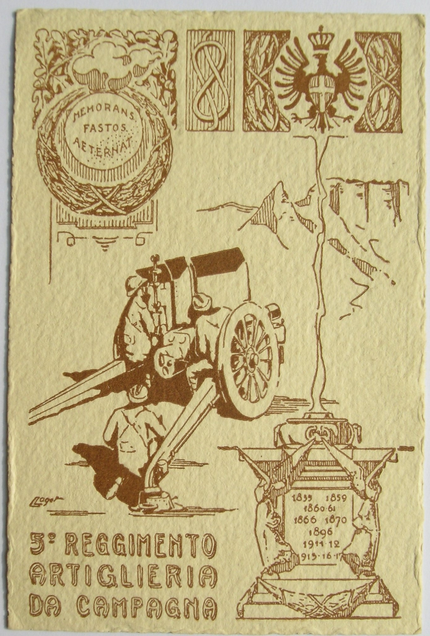 5 FA regiment post card